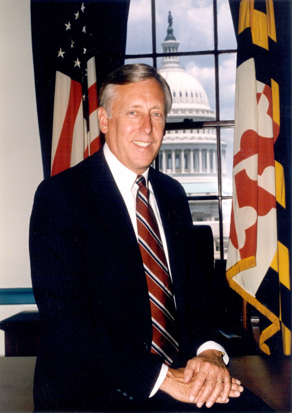 Steny Hoyer, House Minority Whip.